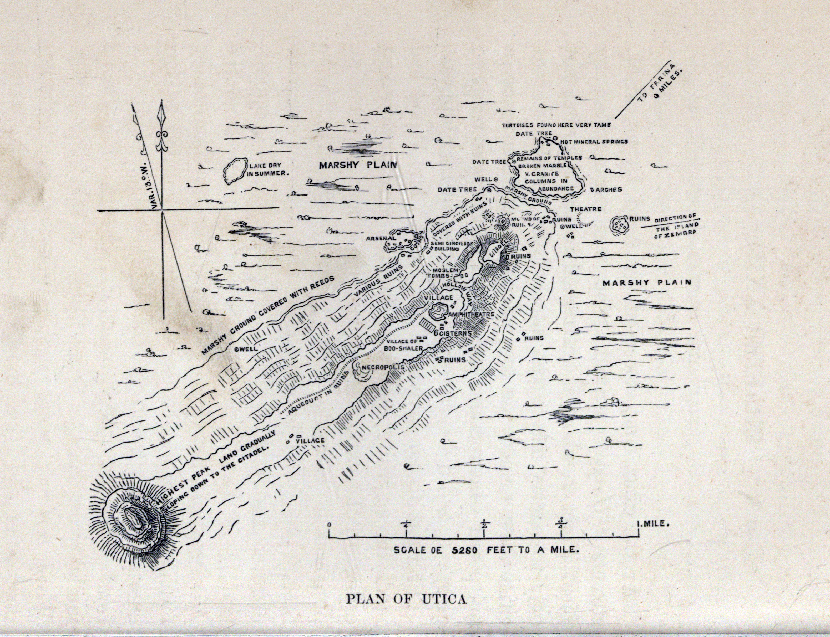 Plan of Utica during engravings around 1860